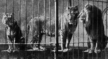 Female liger (in the middle). Photographed 1904.